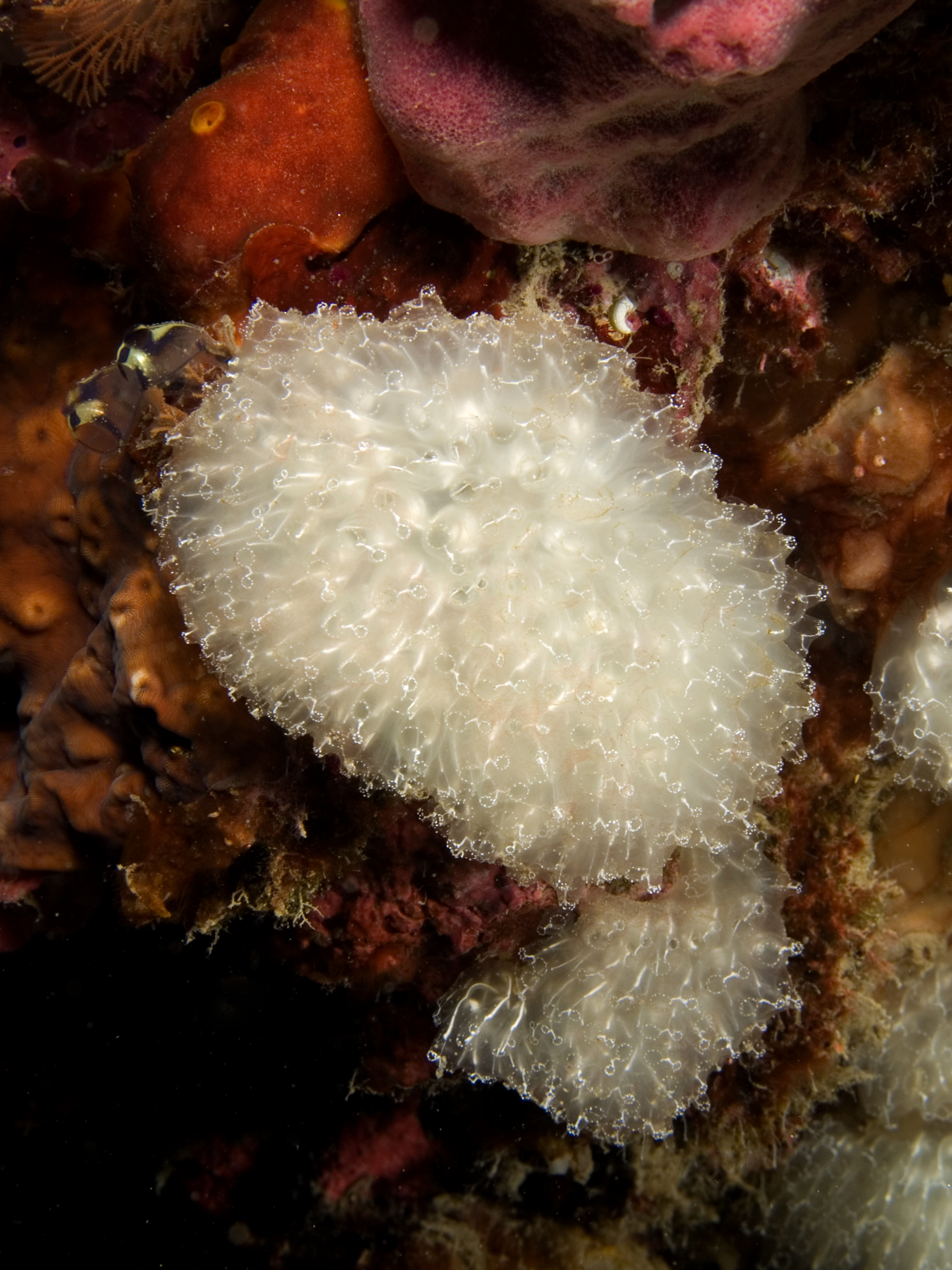 Diazona sp. (Clear tunicates)